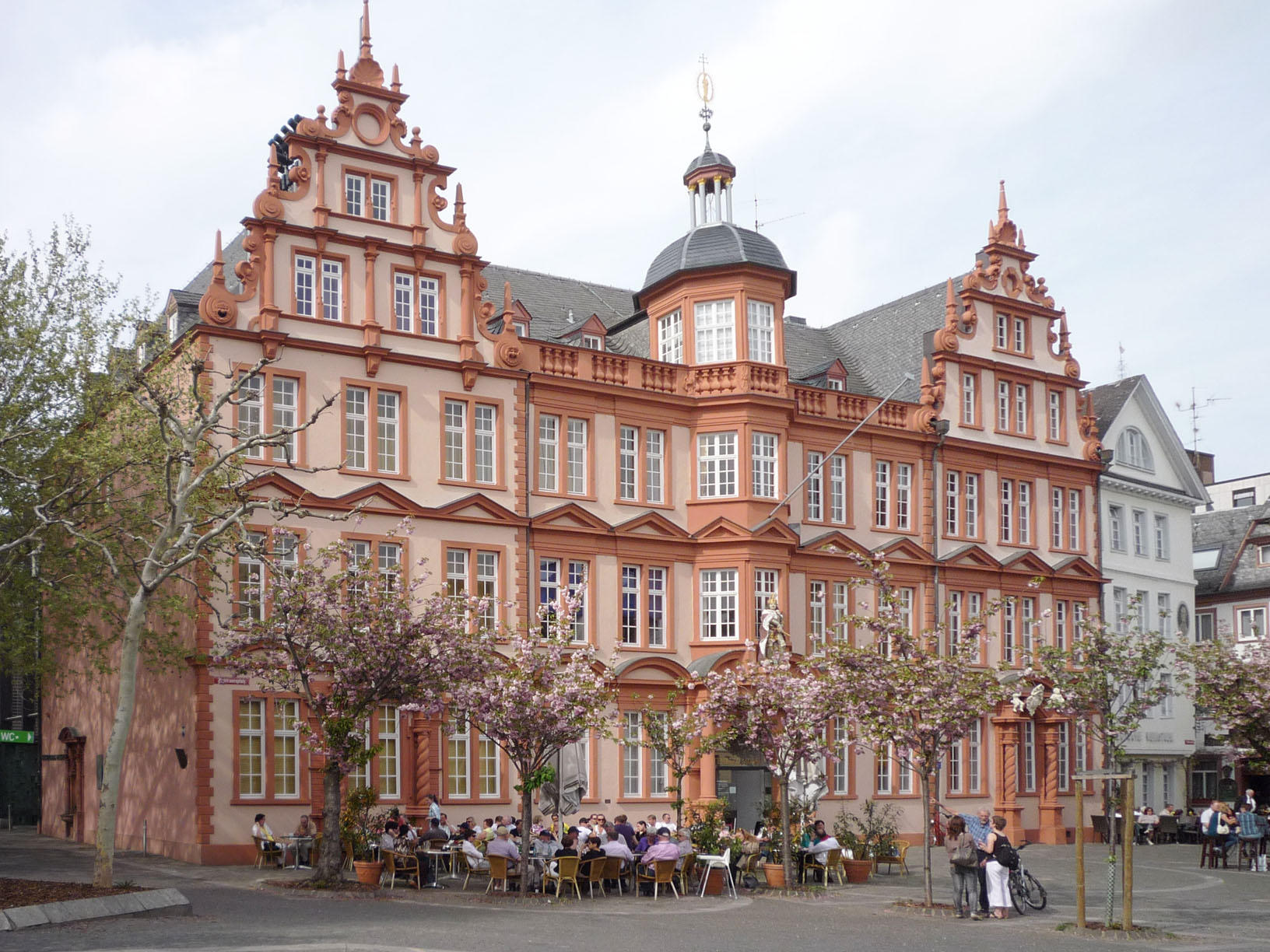 House „Zum Römischen Kaiser“ with the older part of the Gutenberg Museum in Mainz at place Liebfrauenplatz, Germany